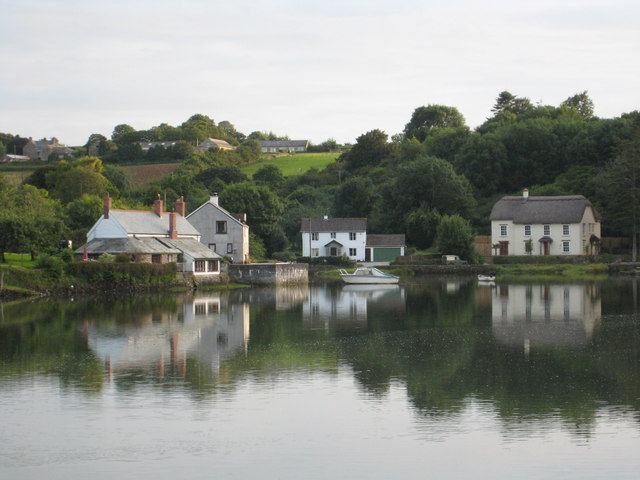 Cowlands at the head of Coombe Creek Taken on a high spring tide